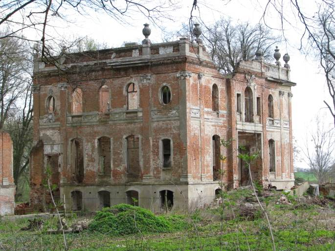 Ruined Rehfeld Palace in Sarnik, Poland